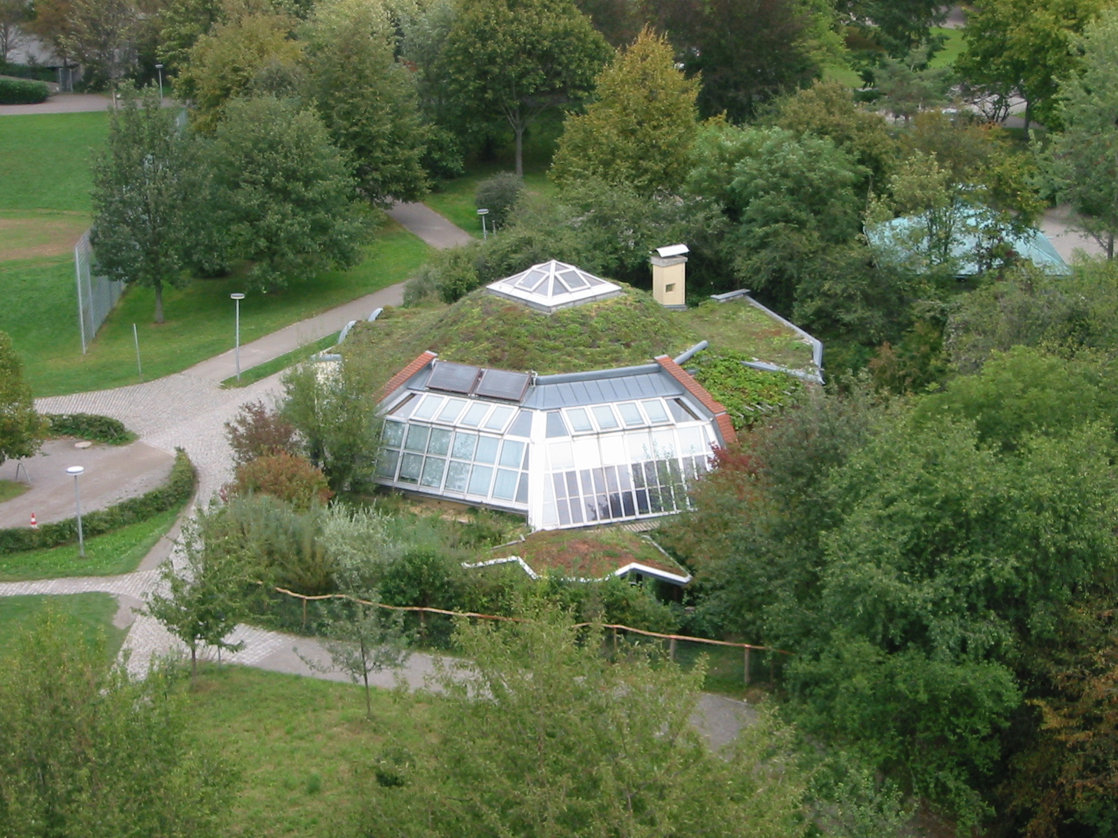 The "Ökostation" (Ecostation), Freiburg, Germany, seen from above